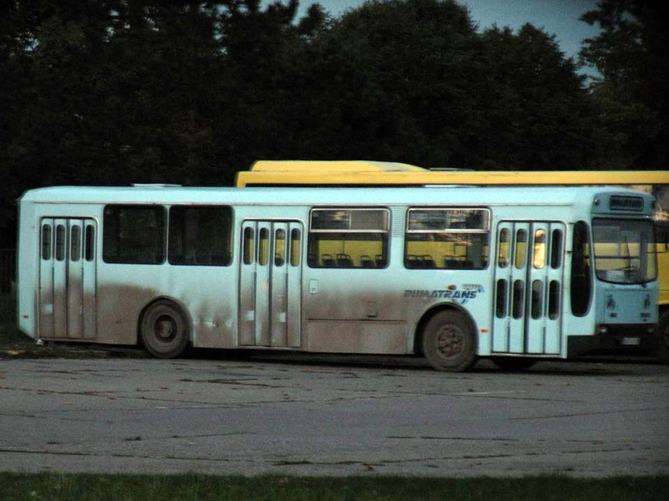 Rumatrans Ikarus-Zemun Ik 111 bus parked at Ruma bus station.